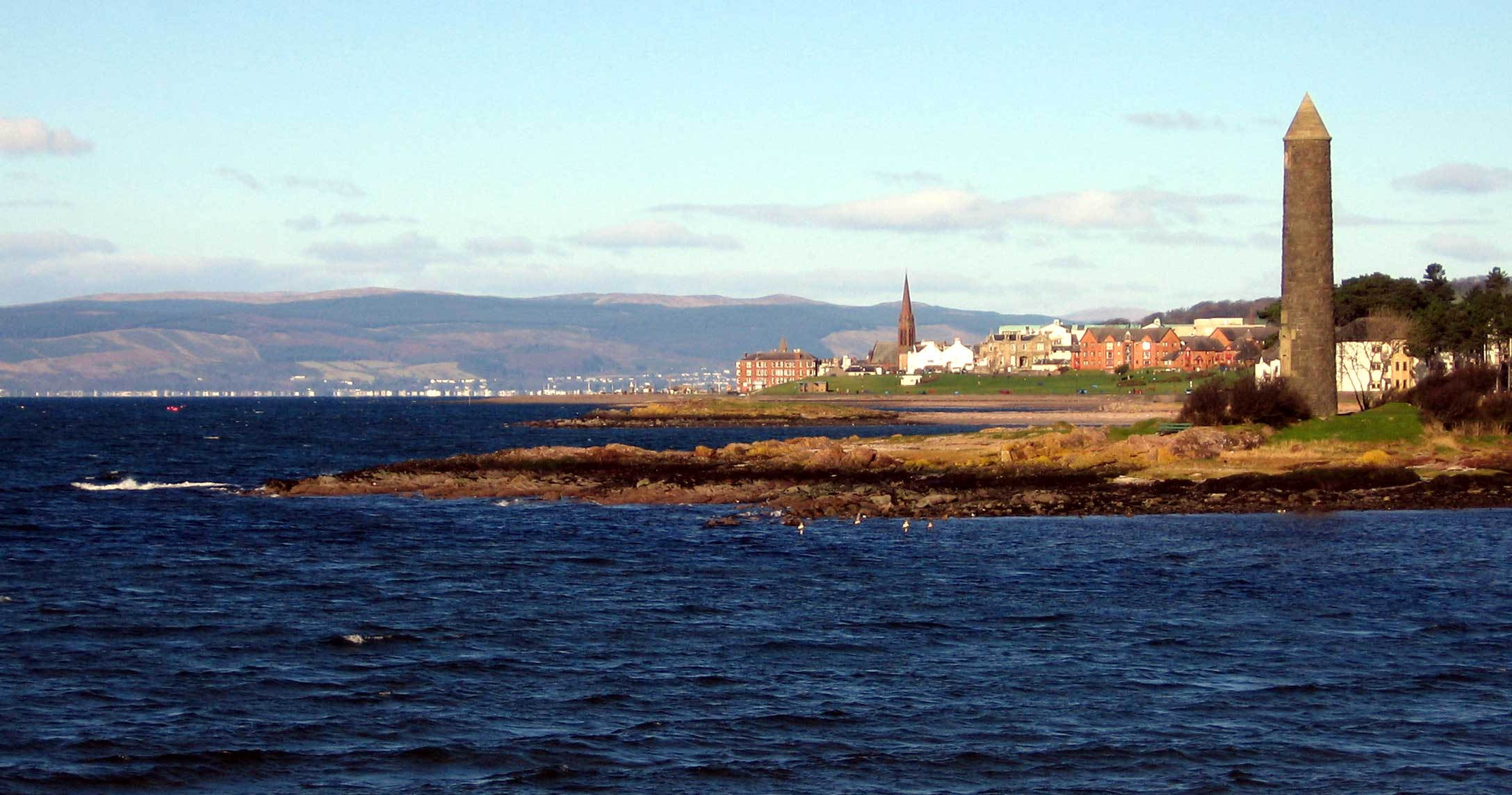 The Largs Pencil stands on a headland jutting into the Firth of Clyde just over a mile (1.8 km) south of the town centre, in commemoration of the Battle of Largs: view looking north. photograph taken in February 2006 by User:Dave souza. Any re-use to contain this licence notice and to attribute the work to User:Dave souza at Wikipedia.